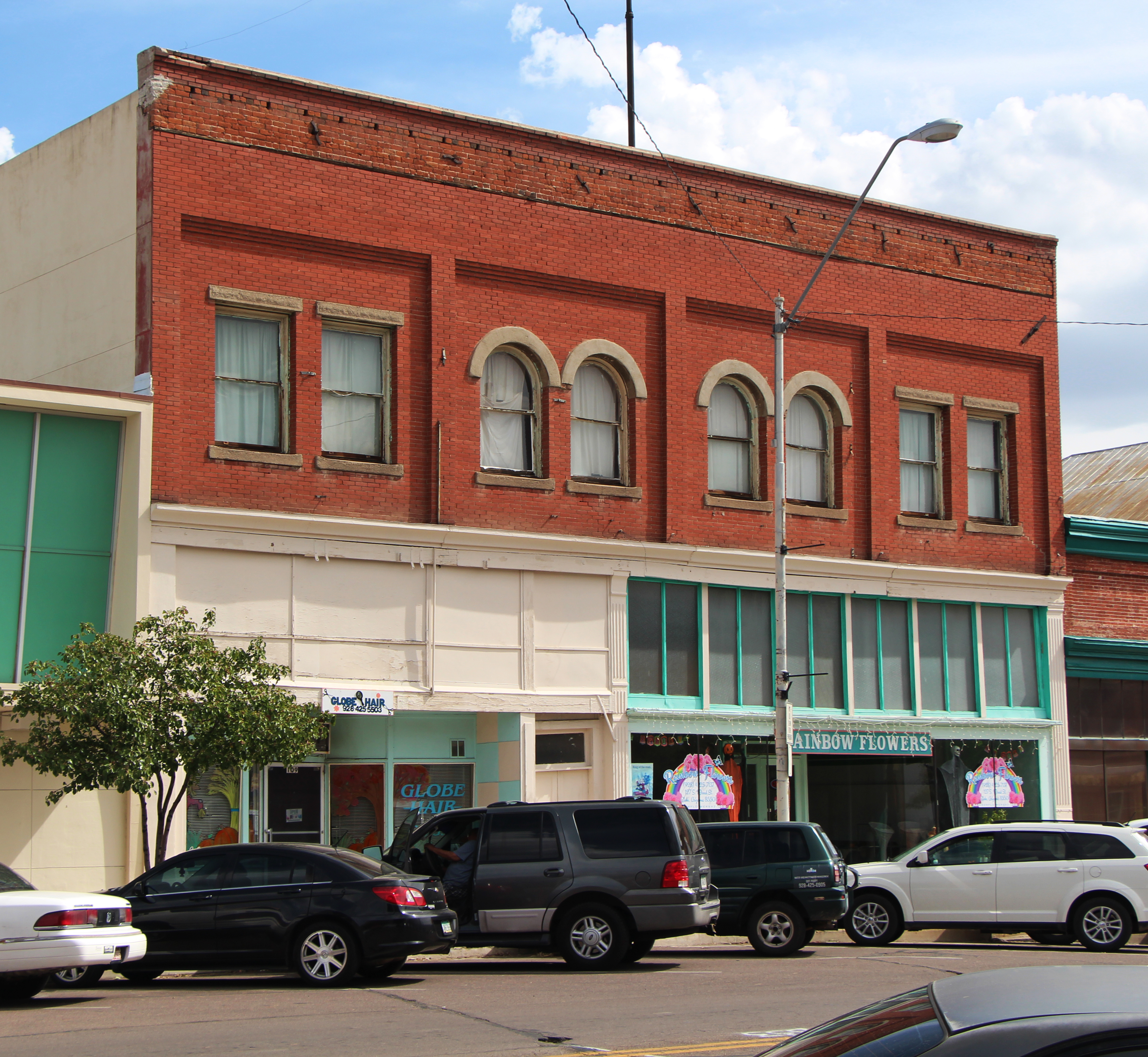 Federal Building, 109 Broad Street, Globe, AZ